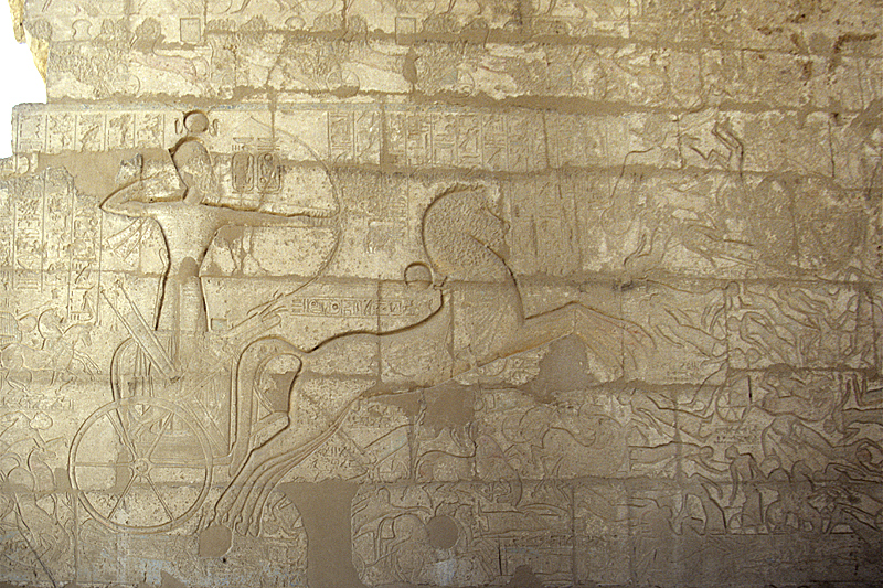 Ramesseum, second court, northern pylon, Ramesses II in chariot in the Qadesh battle, Luxor West Bank, Egypt